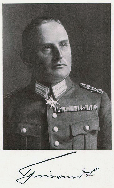 major general Rudolf Schniewindt